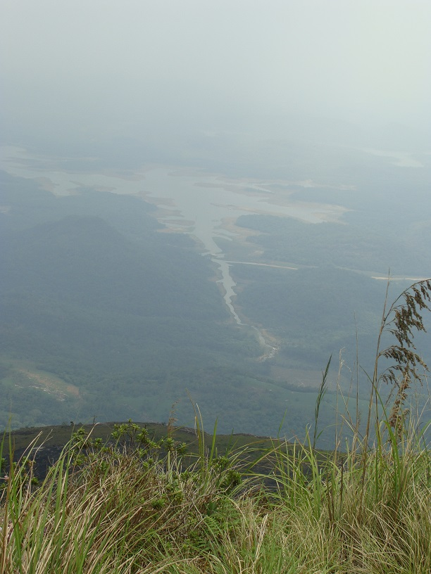 view of pechiparai dam from kothayar